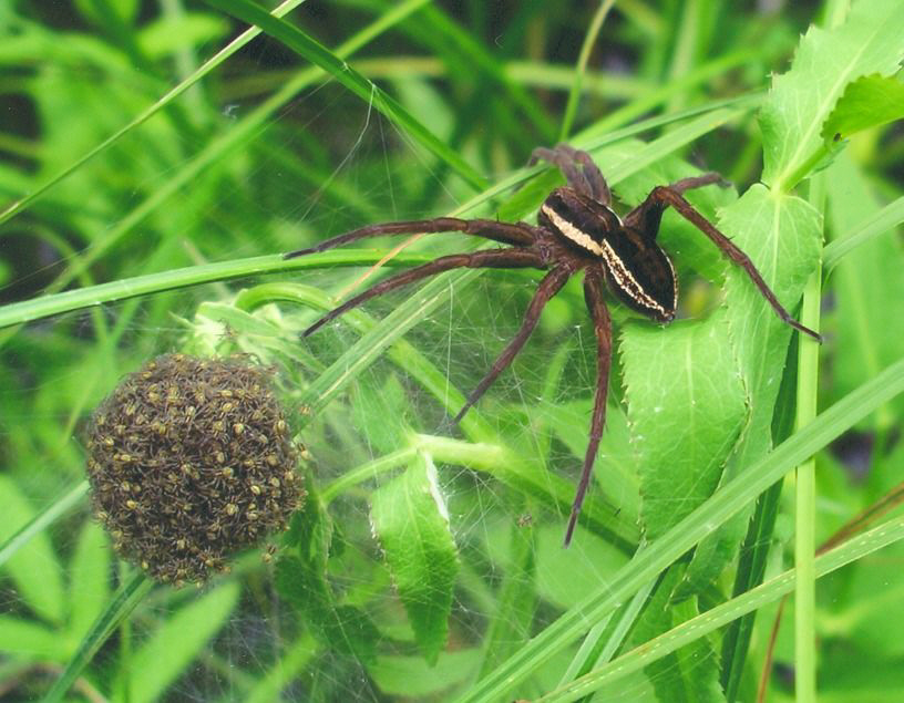 Female Dolomedes fimbriatus with offspring. Phylum : Arthropoda - Class : Arachnida - Order : Araneae - Family : Pisauridae